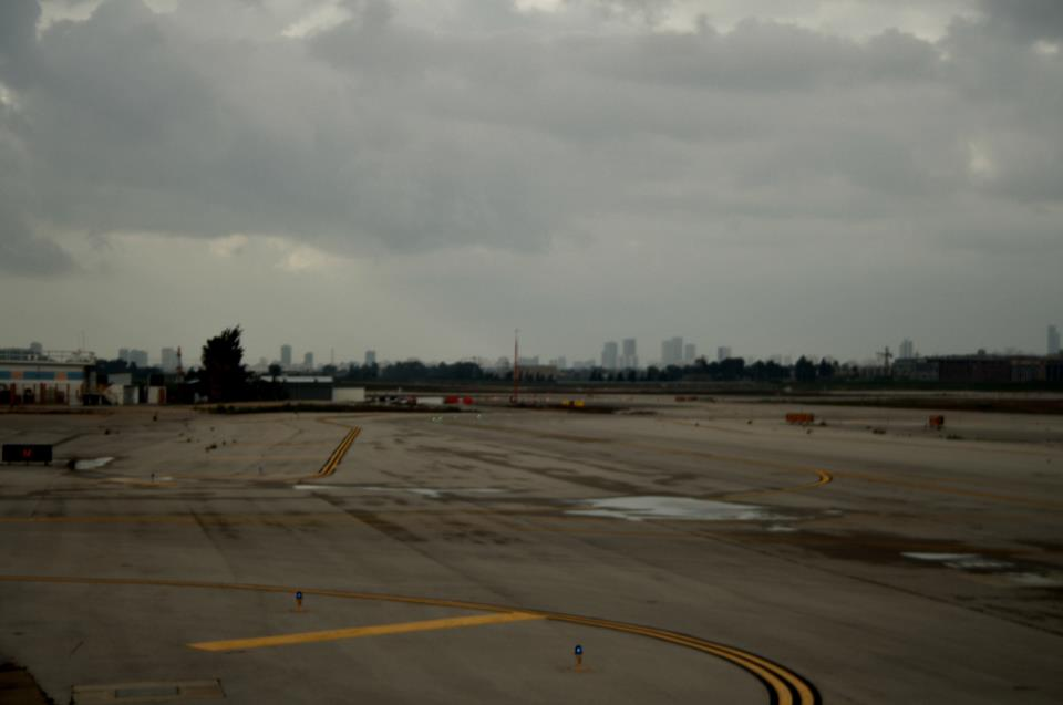 Ben Gurion Airport Runway